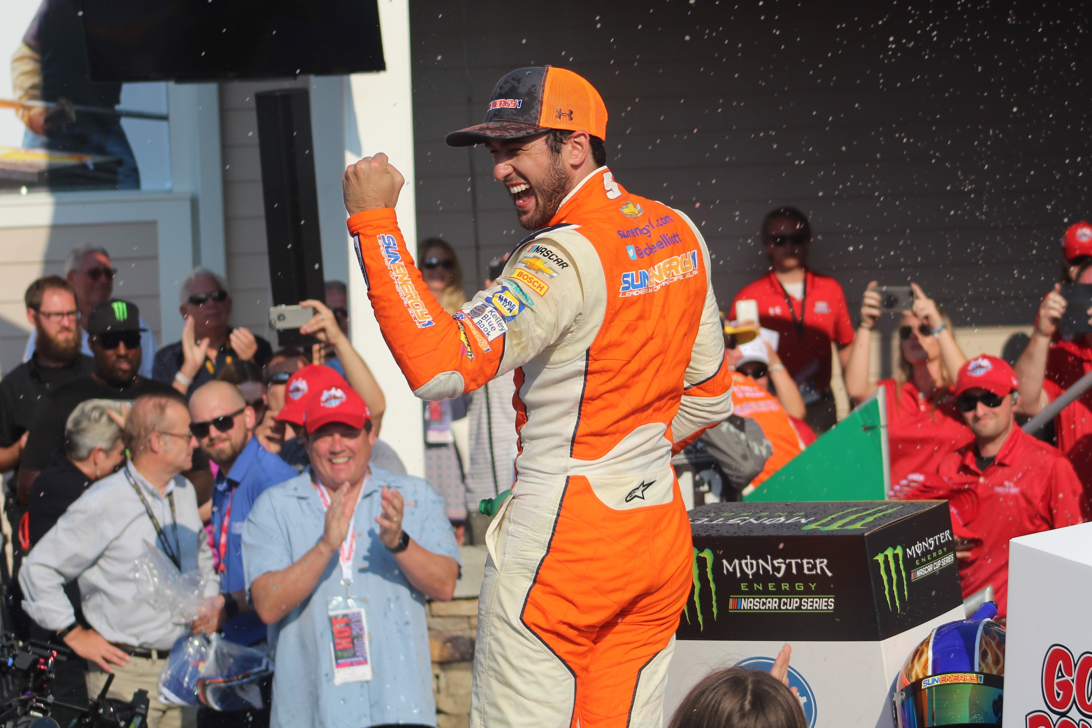 Chase Elliott celebrates in Victory Lane after winning the Go Bowling at the Glen in 2018.